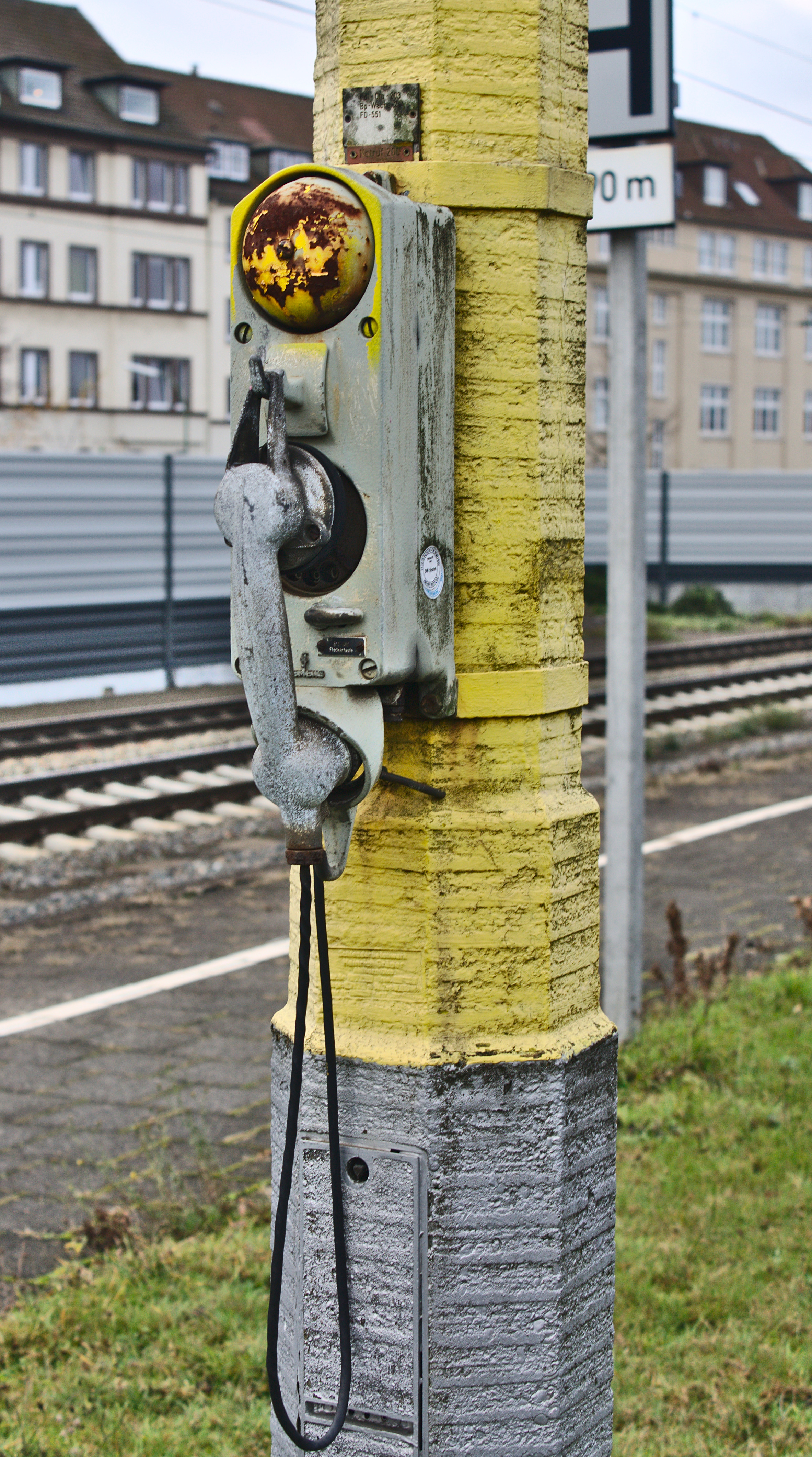 Older (built before 1973) Siemens German Rail PBX [Basa] wall-mount outdoor telephone (mounted on a lighting pole) on platform 11/12 of Osnabrück Central Station [Osnabrück Hauptbahnhof]